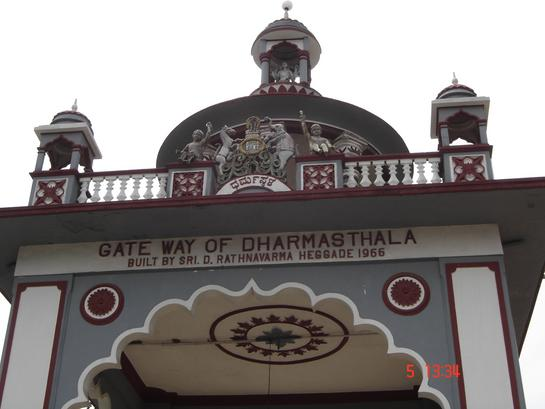 Photograph taken by self, on 06/04/05.